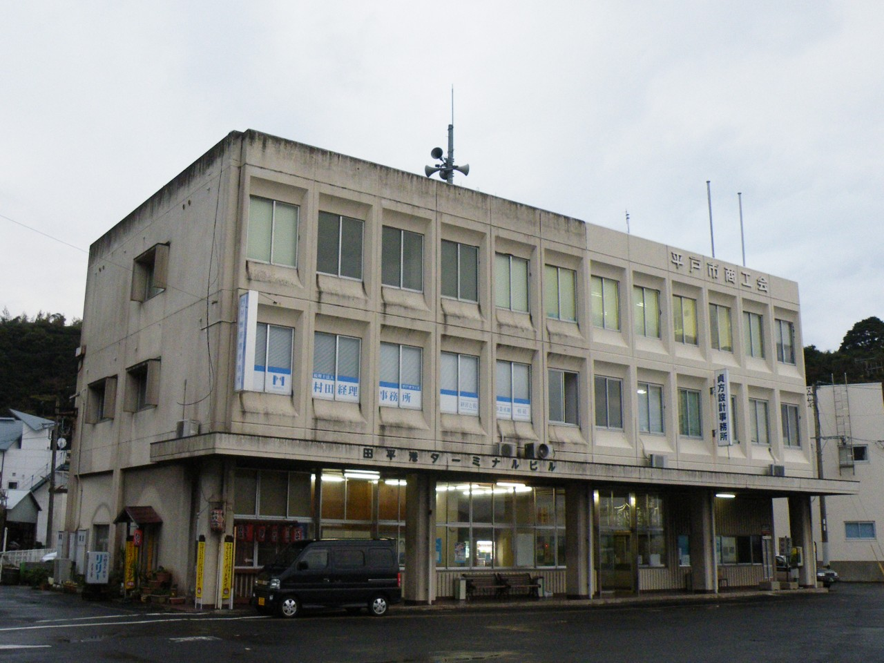 Tabira Port Terminal Building (Saihi Motor Hiradoguchi-Sambashi Bus stop)